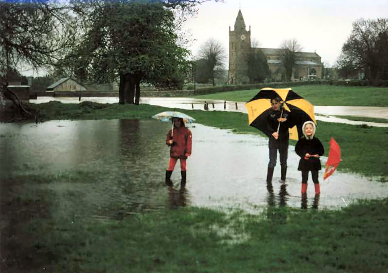 Flooding in Northamptonshire 1998 - South Northants District - Milton Malsor - children exploring the field know as 'the dip' which is showing extensive flood waters backing up.